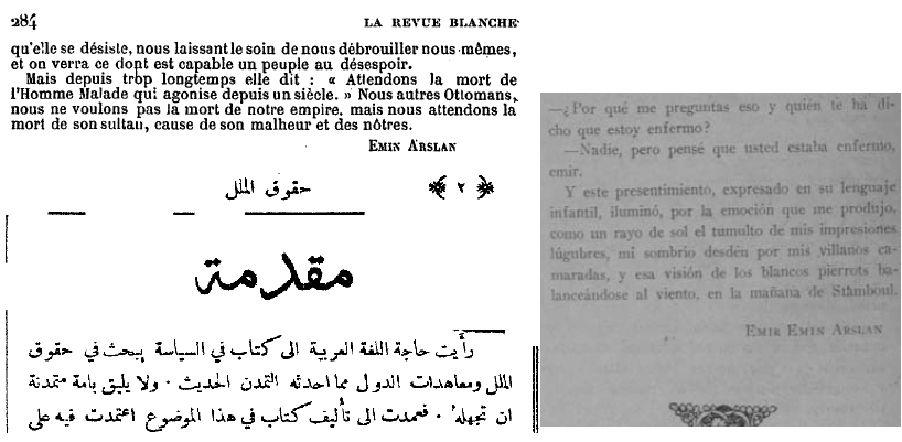 Sample of the three languages in which Emin Arslan published